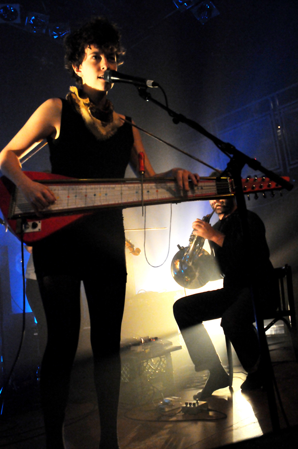 Lead singer of the Luyas